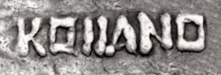 Detail of this coin"Koshanoy" on a coin of Heraios.